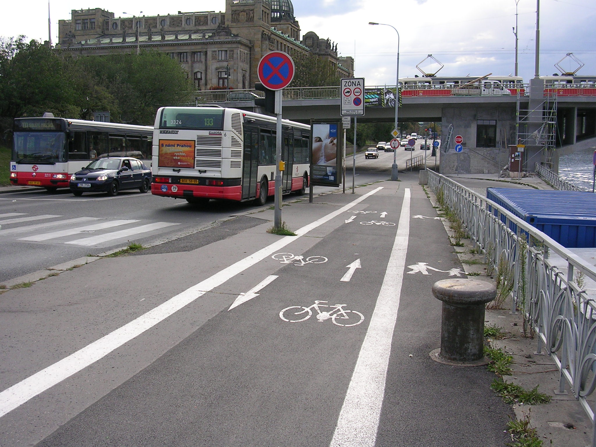 Prague, the Czech Republic. Ludvík Svoboda's Riverside.